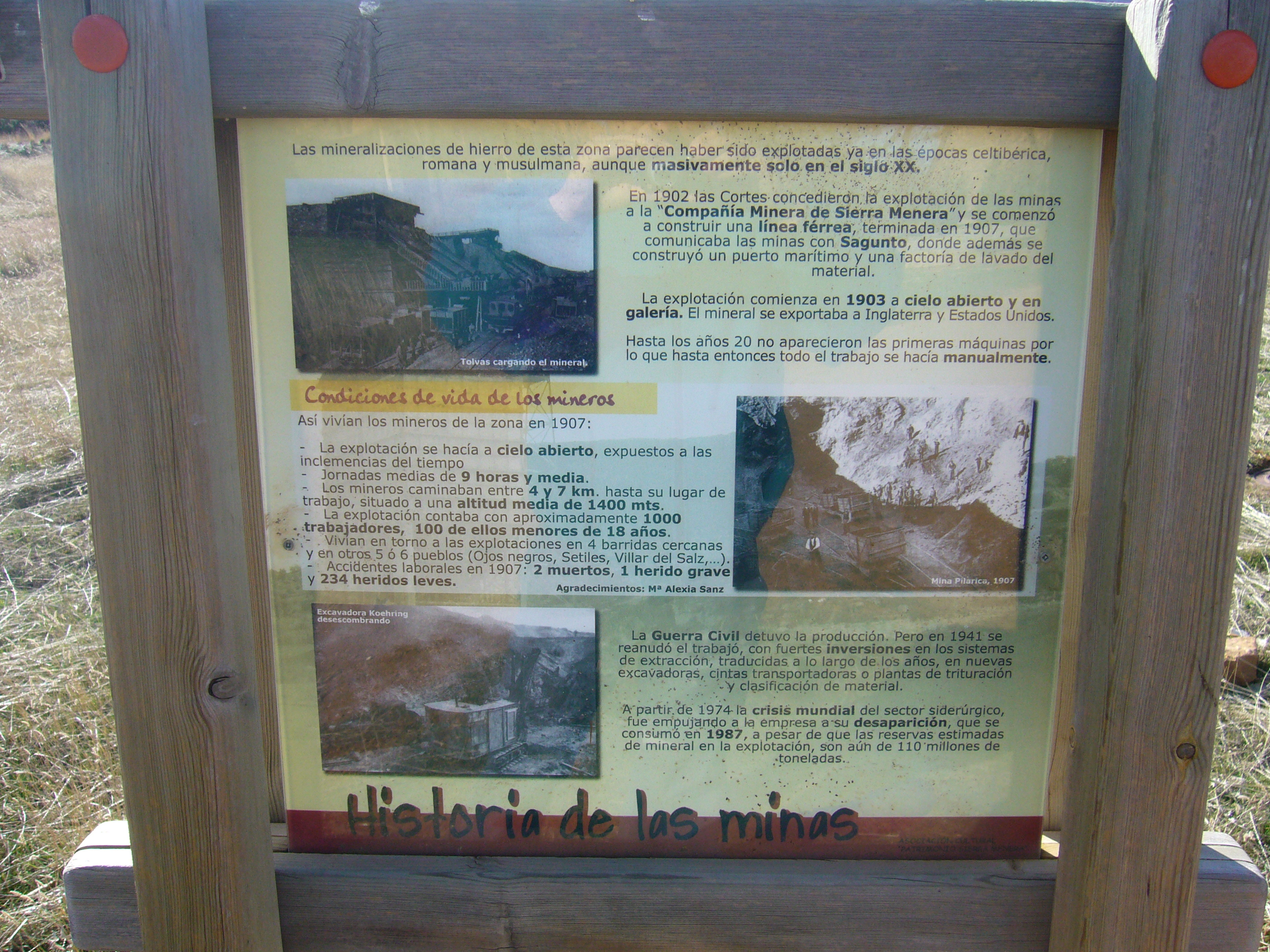 Ojos negros mining